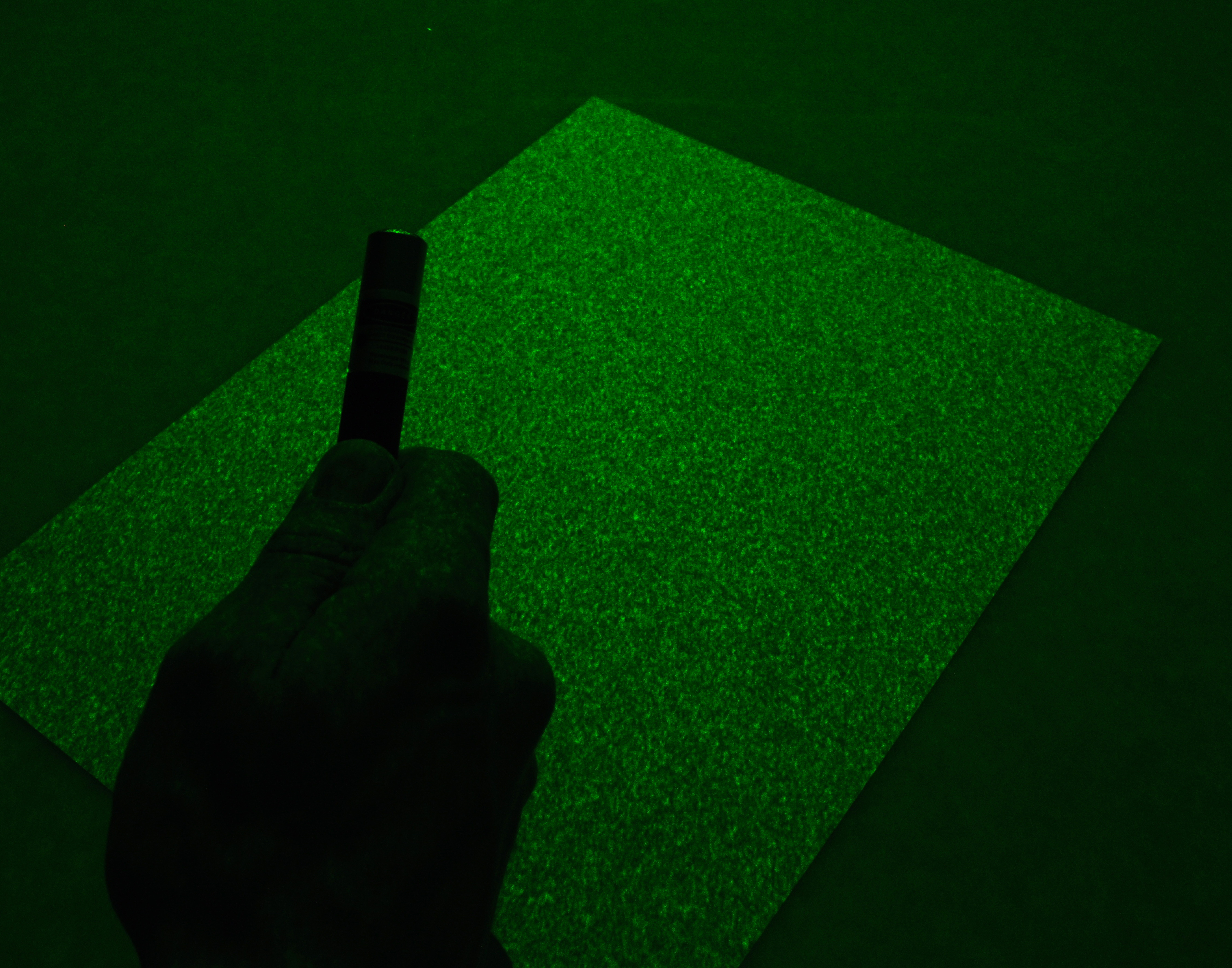 Laser speckles created by lighting the opposite white wall with a 50 mW laser pointer